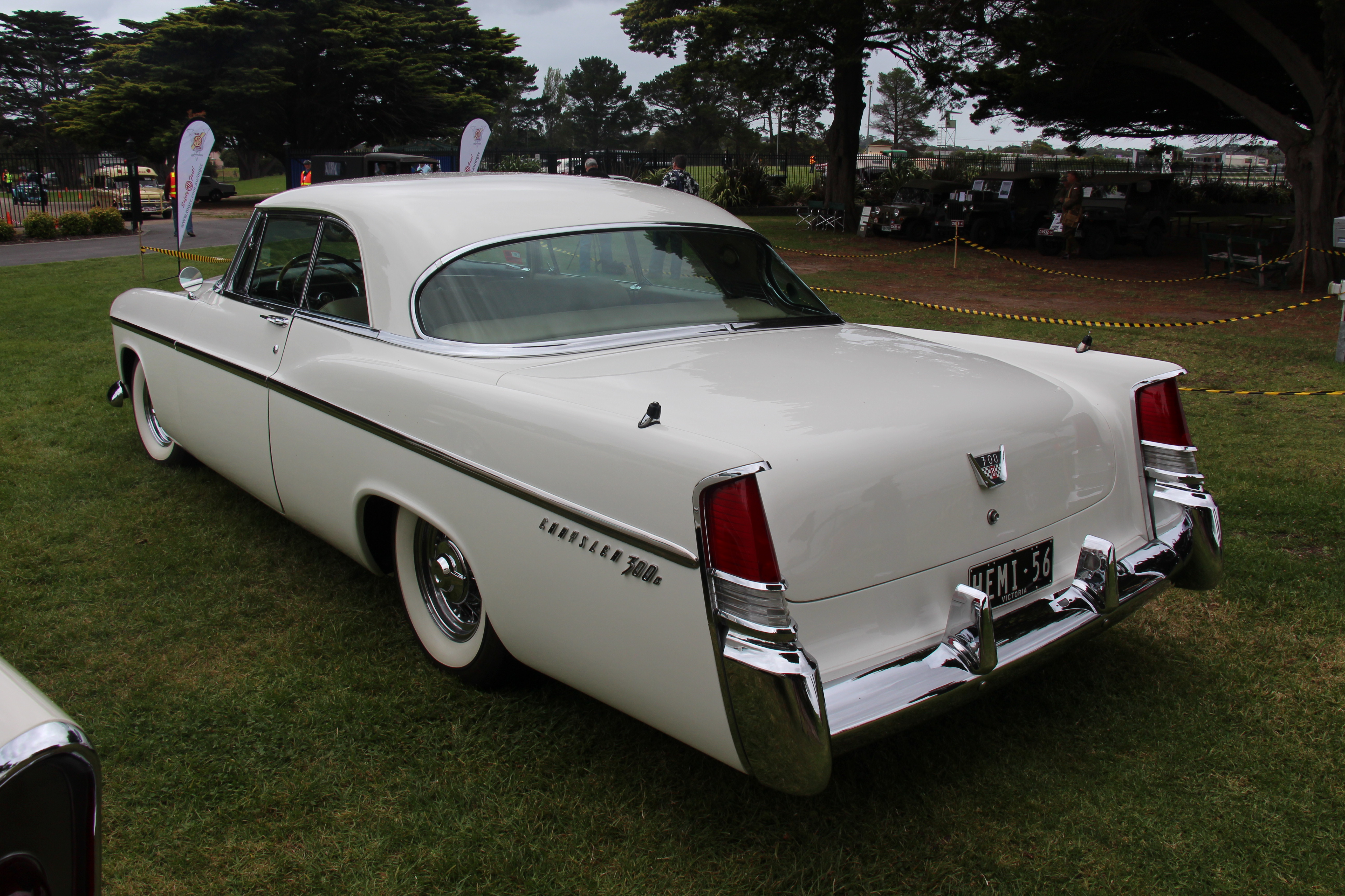 The Chrysler Corporation was founded in 1925. In 1928, Chrysler expanded, he established Plymouth and DeSoto brands and also acquired Fargo Trucks and Dodge Brothers Motors and started selling vehicles under those names. 1955 saw a new more modern lower roofline, a new model was added to the Chrysler lineup, the high performance Chrysler C-300 2 door Hardtop. (300 for 300hp) really a racecar aimed at the NASCAR circuits that was sold for the road for homologation purposes. The front clip, including the grille, was taken from the Imperial of the same year, the midsection was from a New Yorker hardtop, with a Windsor rear quarter. In 1956, it was the 300B, with new tailfins and a larger engine. Also still available was the base model, the Windsor, in Sedan, Convertible, Town & Country Wagon and the Newport 2 door Hardtop. The upmarket model was the New Yorker, available in Sedan, Convertible, Town & Country Wagon and New Yorker Newport 2 door Hardtop, also the higher priced St. Regis 2 door Hardtop. The long Wheelbase Imperial and Imperial Crown were also still available. Engine; 354 cu in Hemi V8 with either 340 or 355 hp. Only 1,102 300 Bs were sold